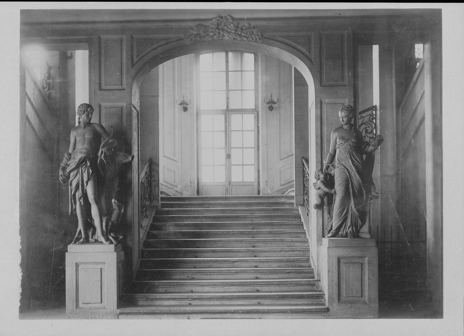 Palais Brühl